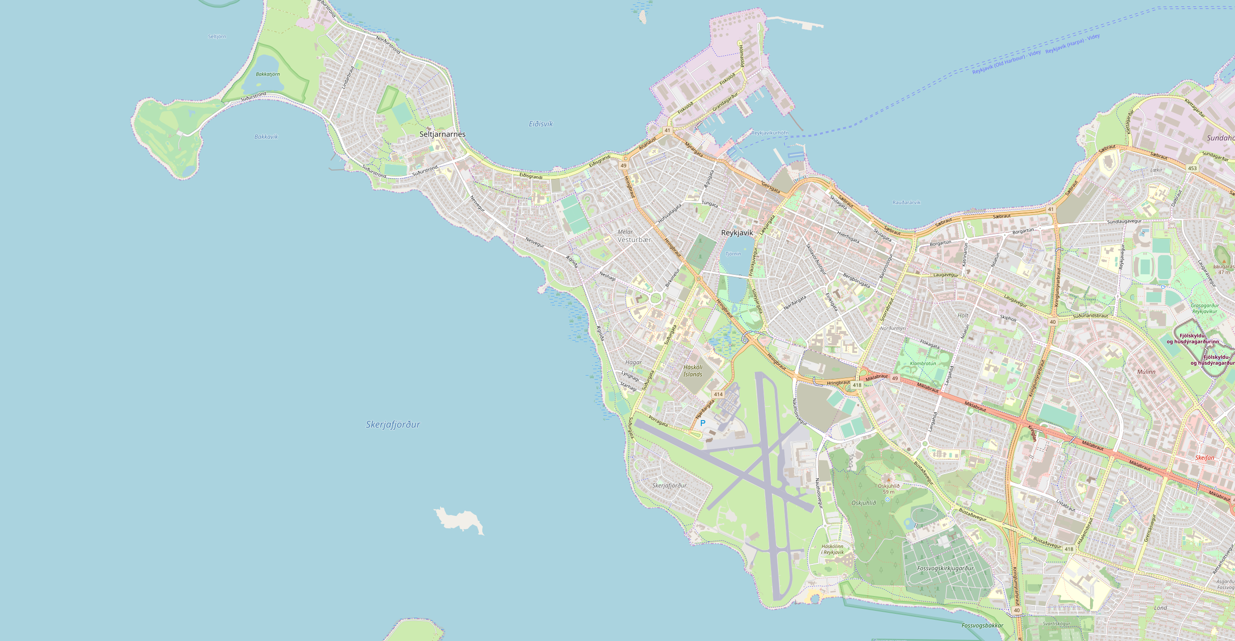 OpenStreetMap map of ReykjavíkThis map of Reykjavík was created from OpenStreetMap project data, collected by the community. This map may be incomplete, and may contain errors. Don't rely solely on it for navigation.